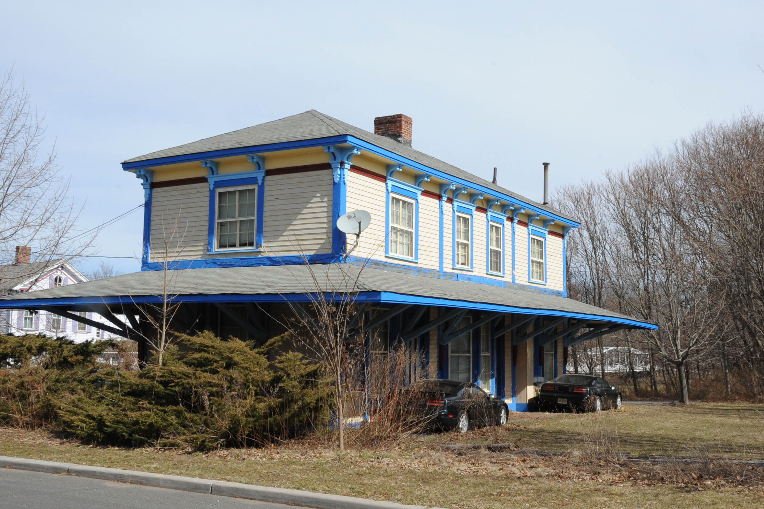 NEW JERSEY CENTRAL RAILROAD PASSENGER STATION; CIRCA 1864-1865 OR POSSIBLE POST 1873; ITALIANATE STYLE